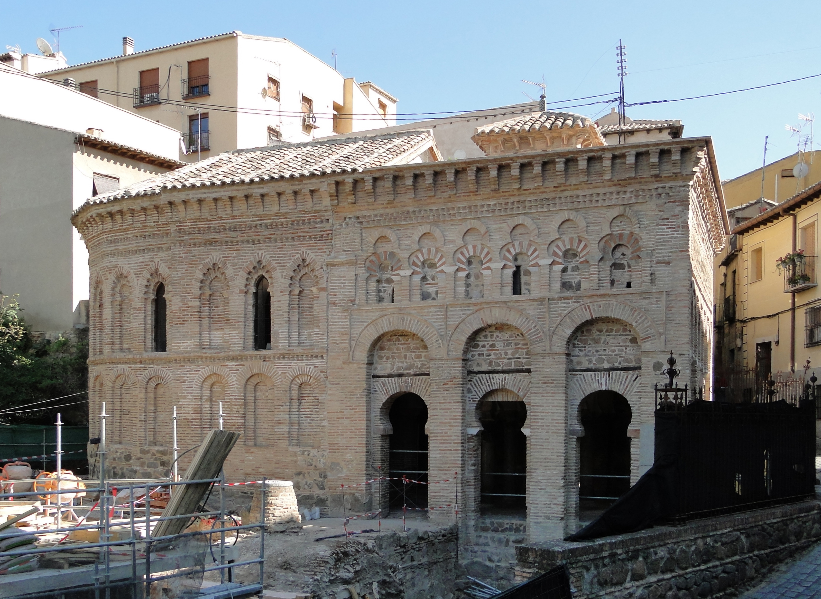 Mosque of Cristo de la Luz, Toledo, Spain